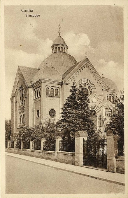 Synagogue of Gotha, built in 1904, detroyed by the nazis in 1938.